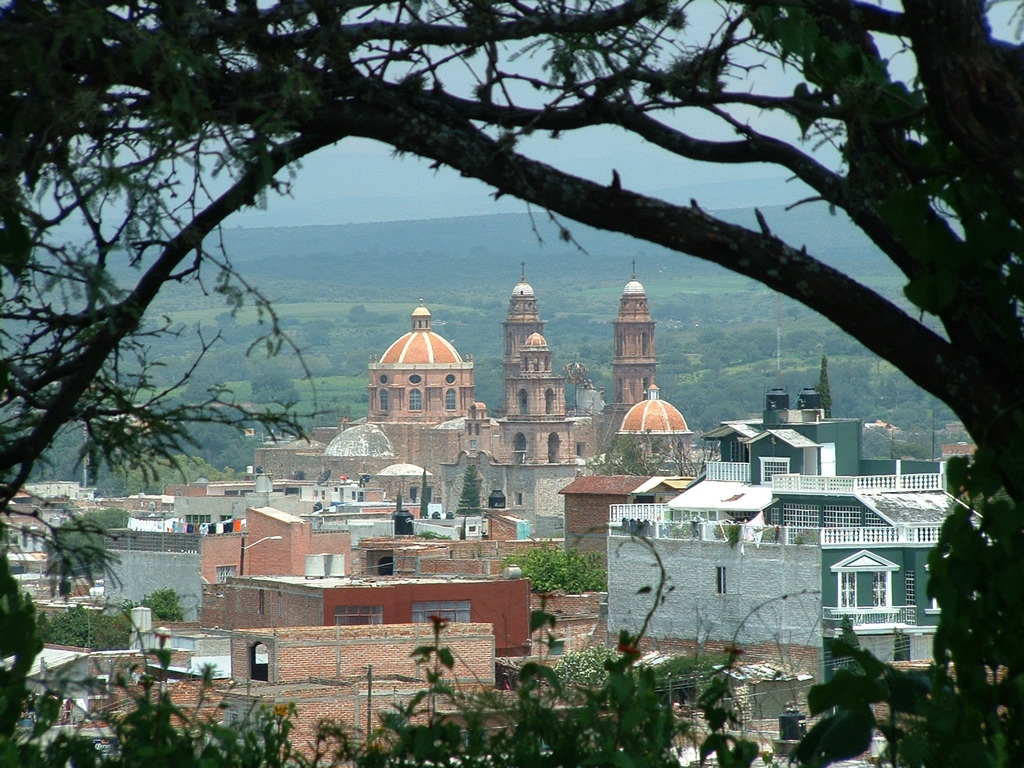 View from the hills opposite of the cathedral.